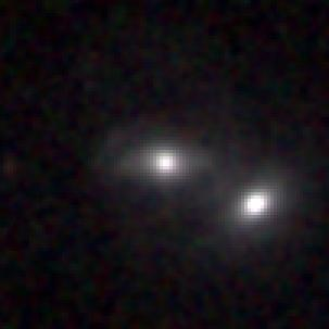 Galaxy NGC 7285